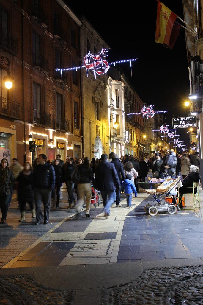 Ancha street